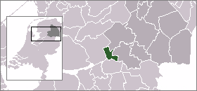 Location map of Dutch municipality in Drenthe. All images of this type by Mtcv have been released in the Public Domain by him